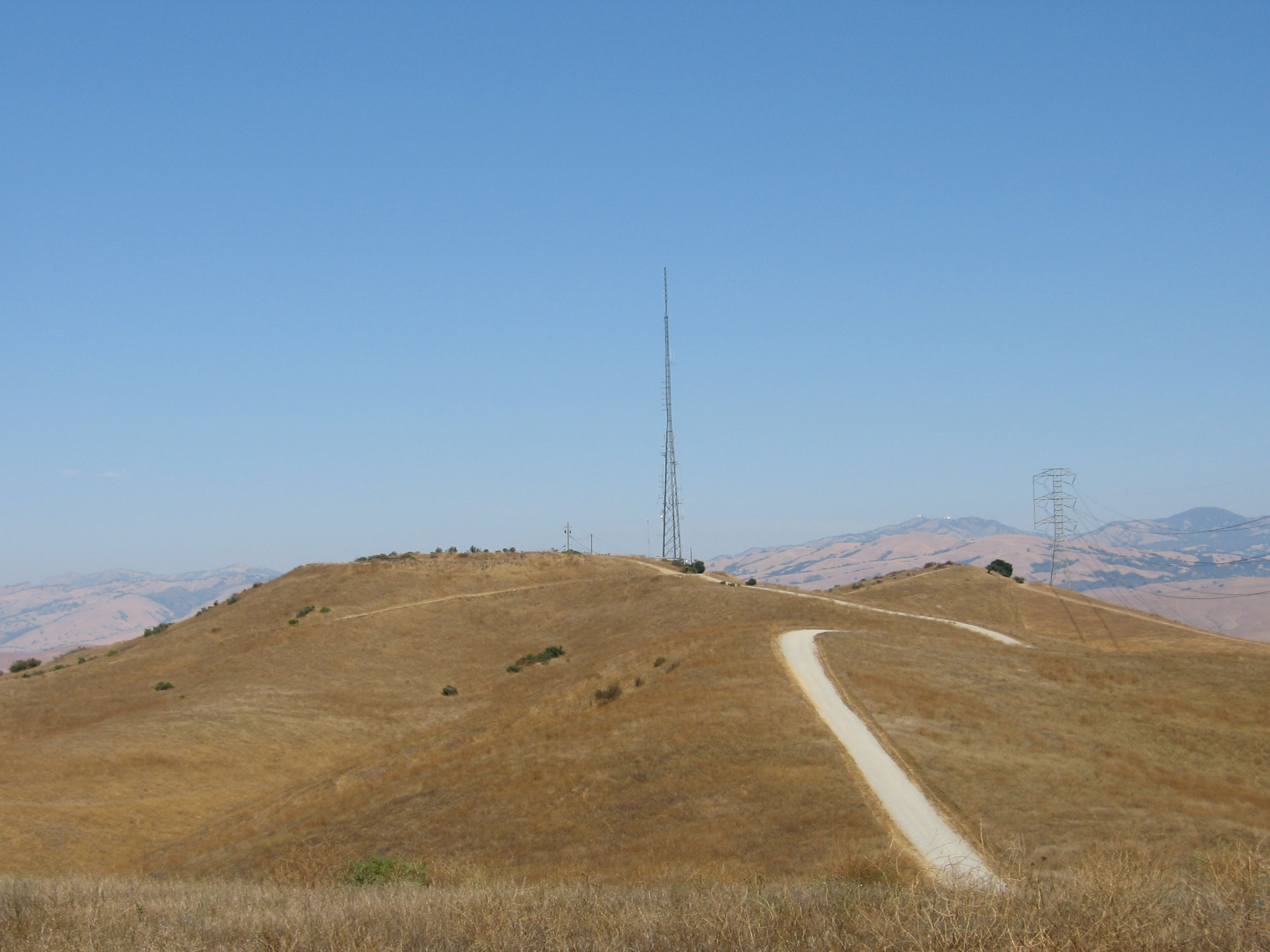 Coyote Peak - Highest point in Santa Teresa County Park, Santa Clara County, CA